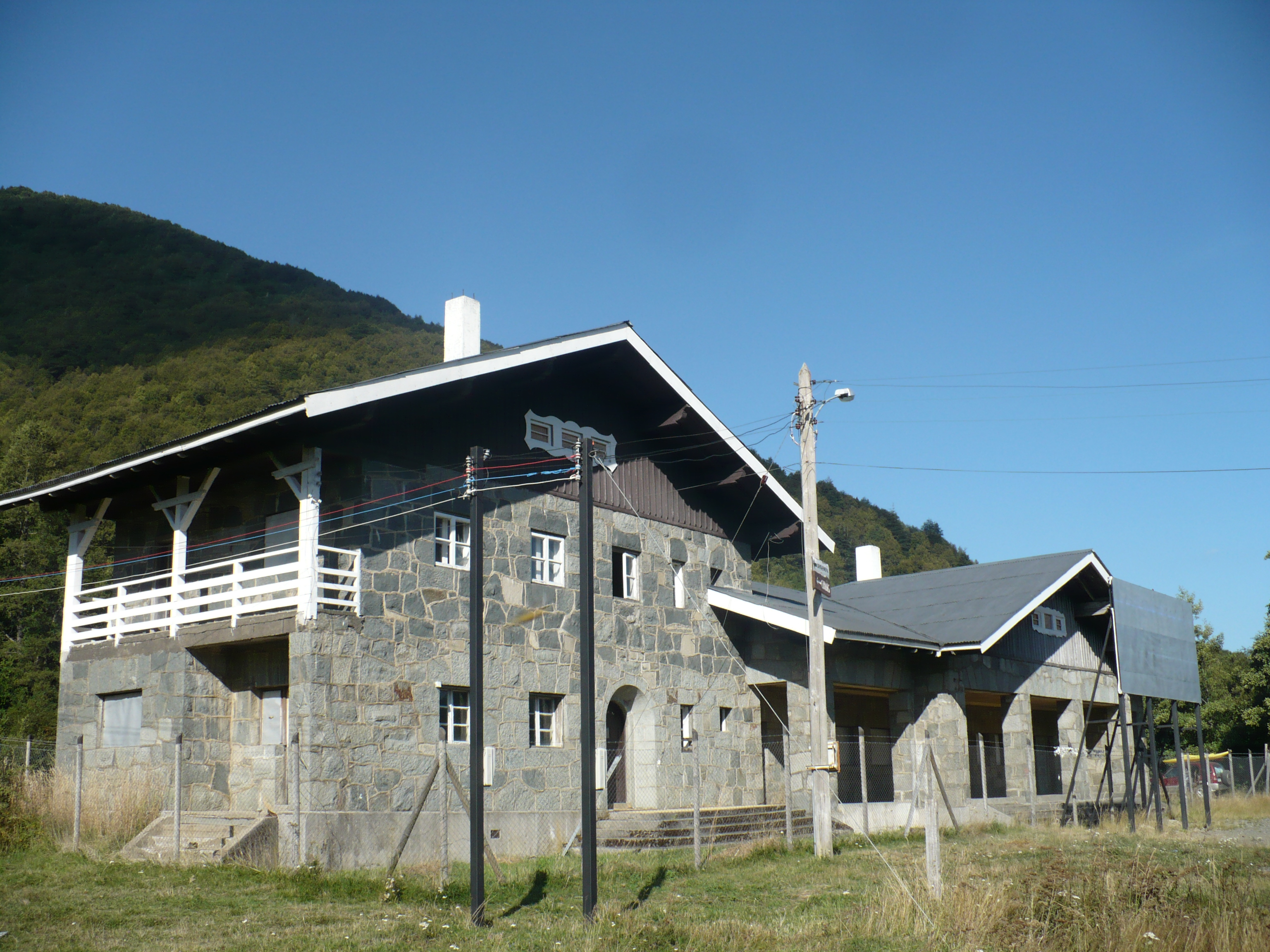 This is a photo of a national monument in Chile: 2052